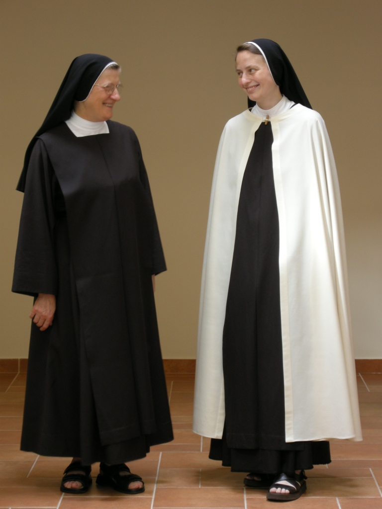 religious clothing Carmelite Sisters of St. Theresa